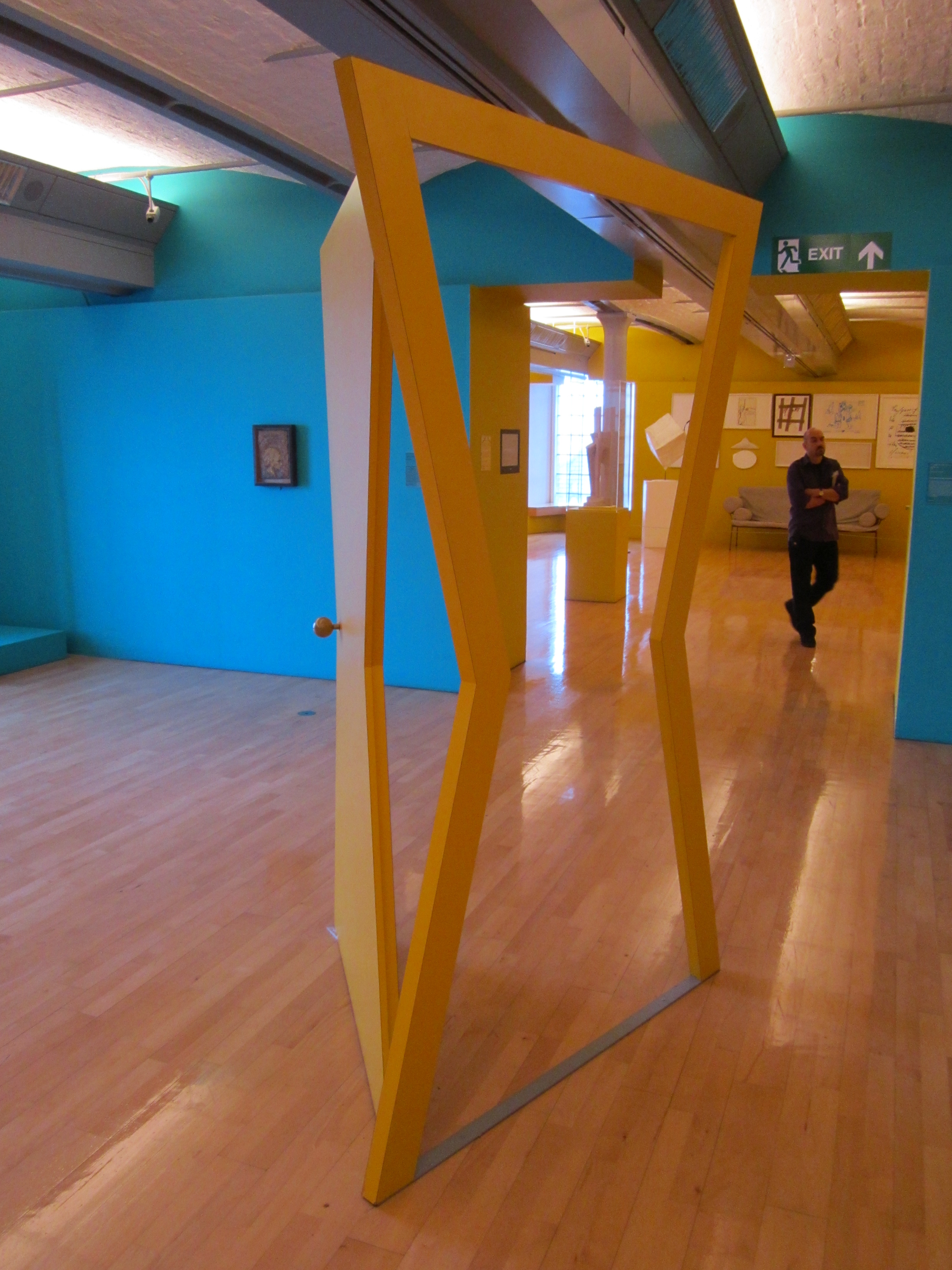 Door by Michelangelo Pistoletto at the Tate Liverpool, England.